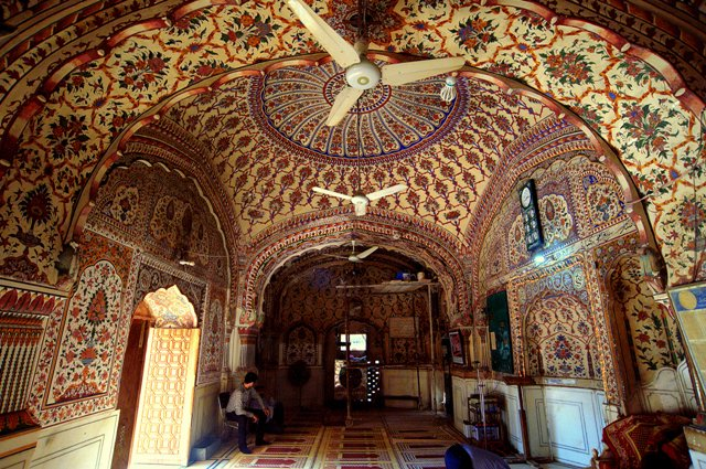 Sunehri Masjid (The Golden Mosque) This is a photo of a monument in Pakistan identified as the PB-P-97